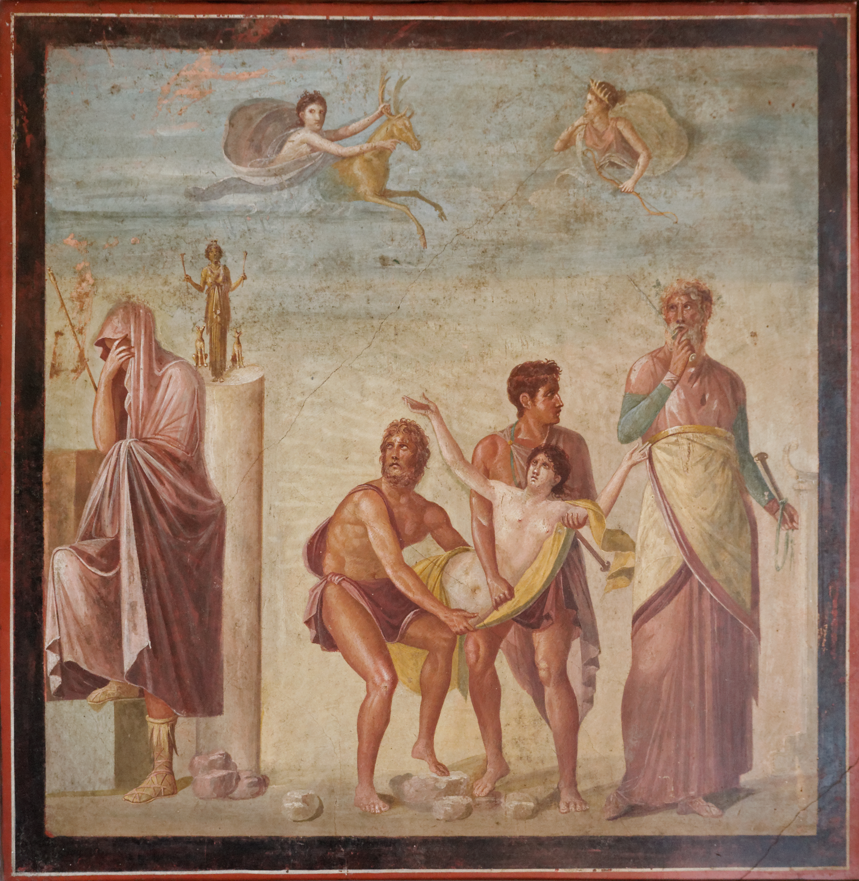 Iphigeneia carried to the sacrifice (centre) while the seer Calchas (on the right) watches on and Agamemnon (on the left) covers his head in sign of deploration. In the sky, Artemis appears with a hind which will be substituted to the young girl.